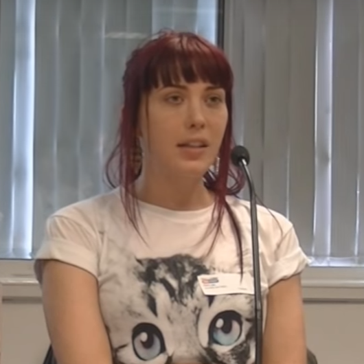 Paris Lee, pictured during the Pink Therapy Trans*: Emerging Trends Conference 2014